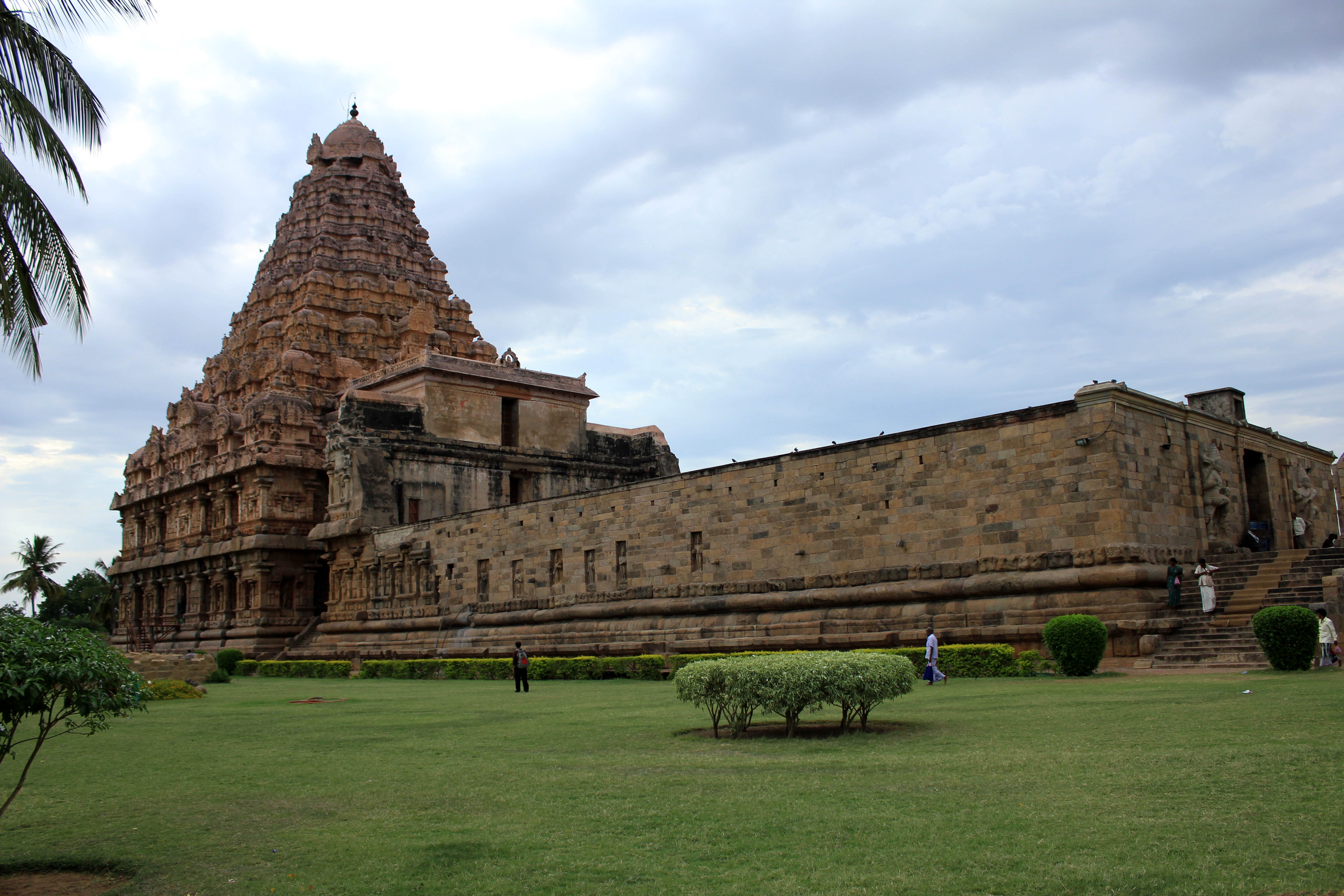 This is the Brihadeeshwara temple at Gangai Konda Cholapuram near Thanjavur built by Rajendra Chola I.